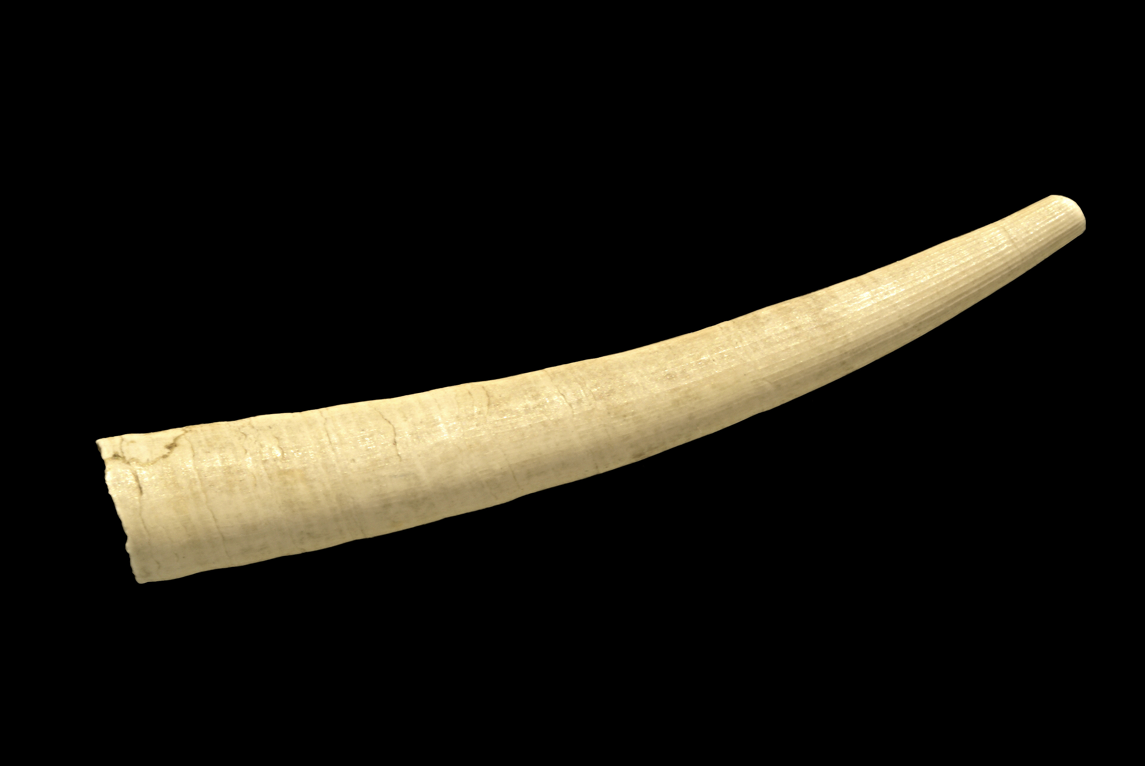 Common tusk shell from Roscoff, France. Length: 42 mm.